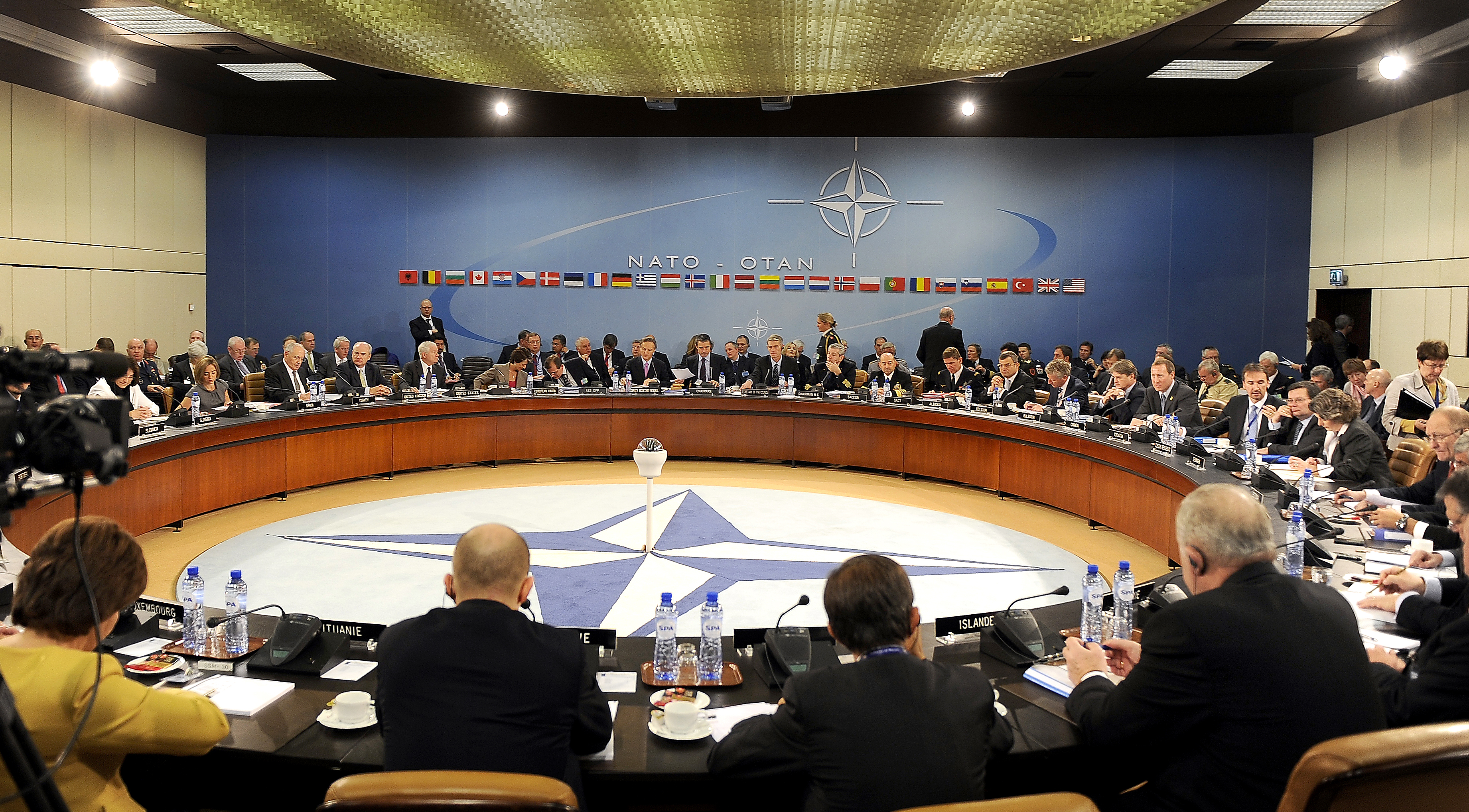 U.S. Defense Secretary Robert M. Gates and other members of NATO Ministers of Defense and of Foreign Affairs meet at NATO headquarters in Brussels, Belgium, Oct. 14, 2010, to give political guidance for the November meeting of Allied Heads of State and Government at the NATO Summit in Lisbon, Portugal.